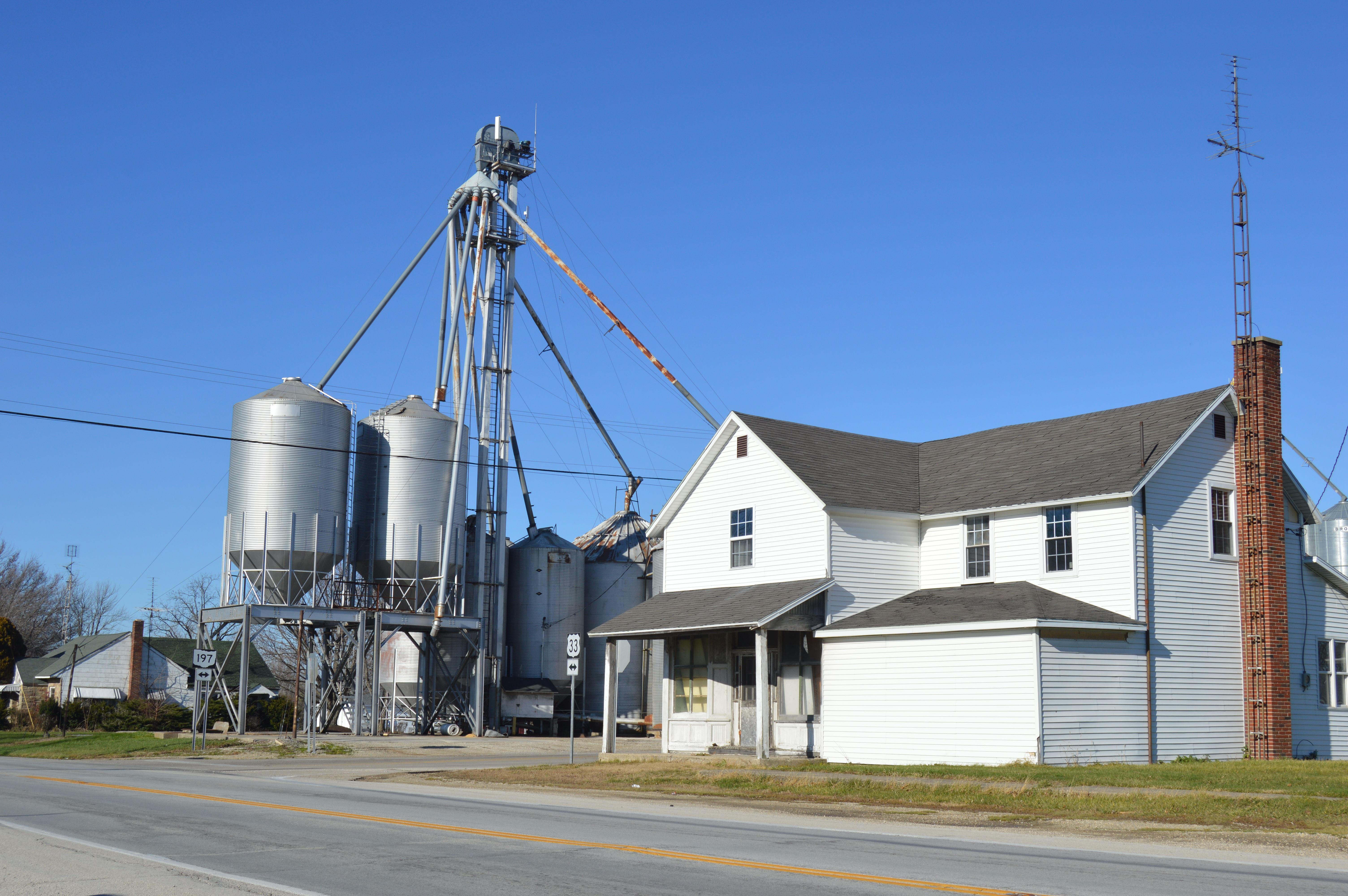 A house and grain elevator on the eastern and northern corners of the intersection of U.S. Route 33 and State Route 197 in Neptune, Ohio, United States.